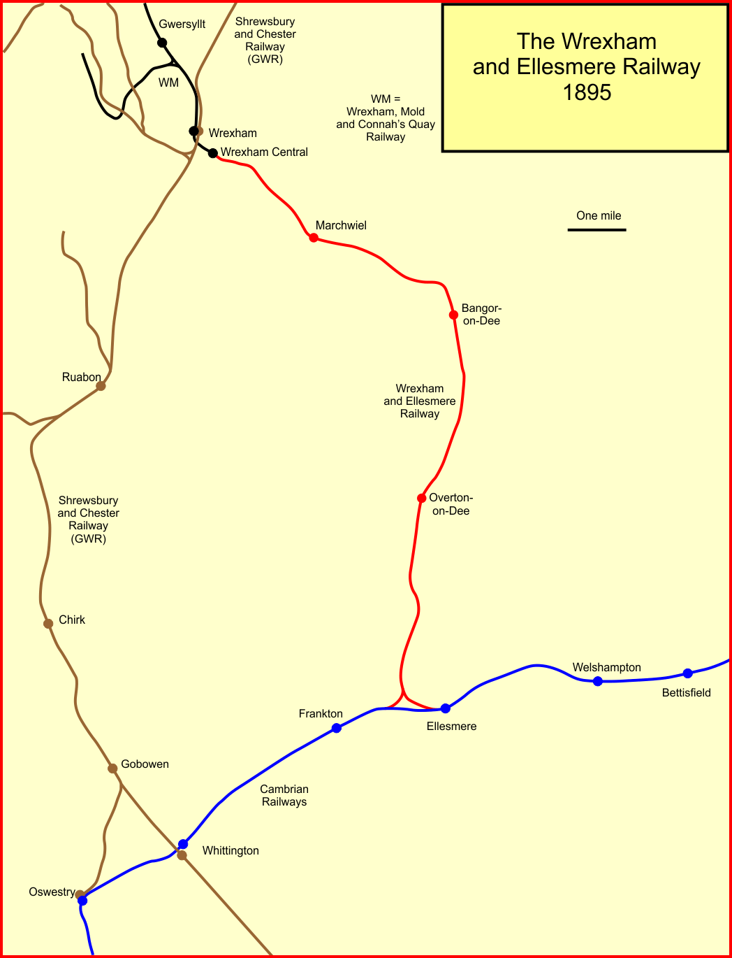 System map of the Wrexham and Ellesmere Railway, United Kingdom, on opening in 1895